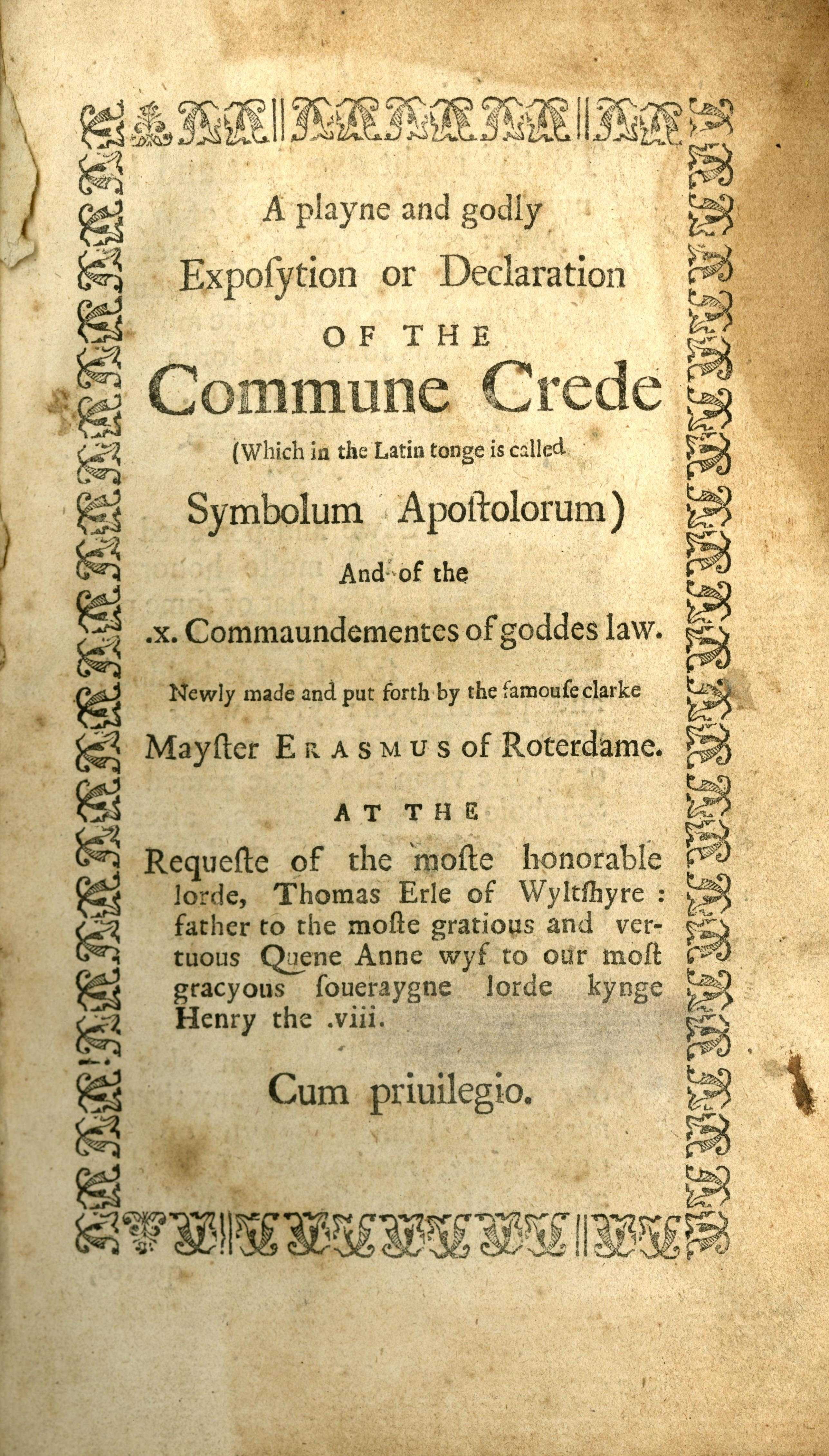 Scan of the title page from the second printing of Erasms' work Exposition or Declaration Of The Common Crede